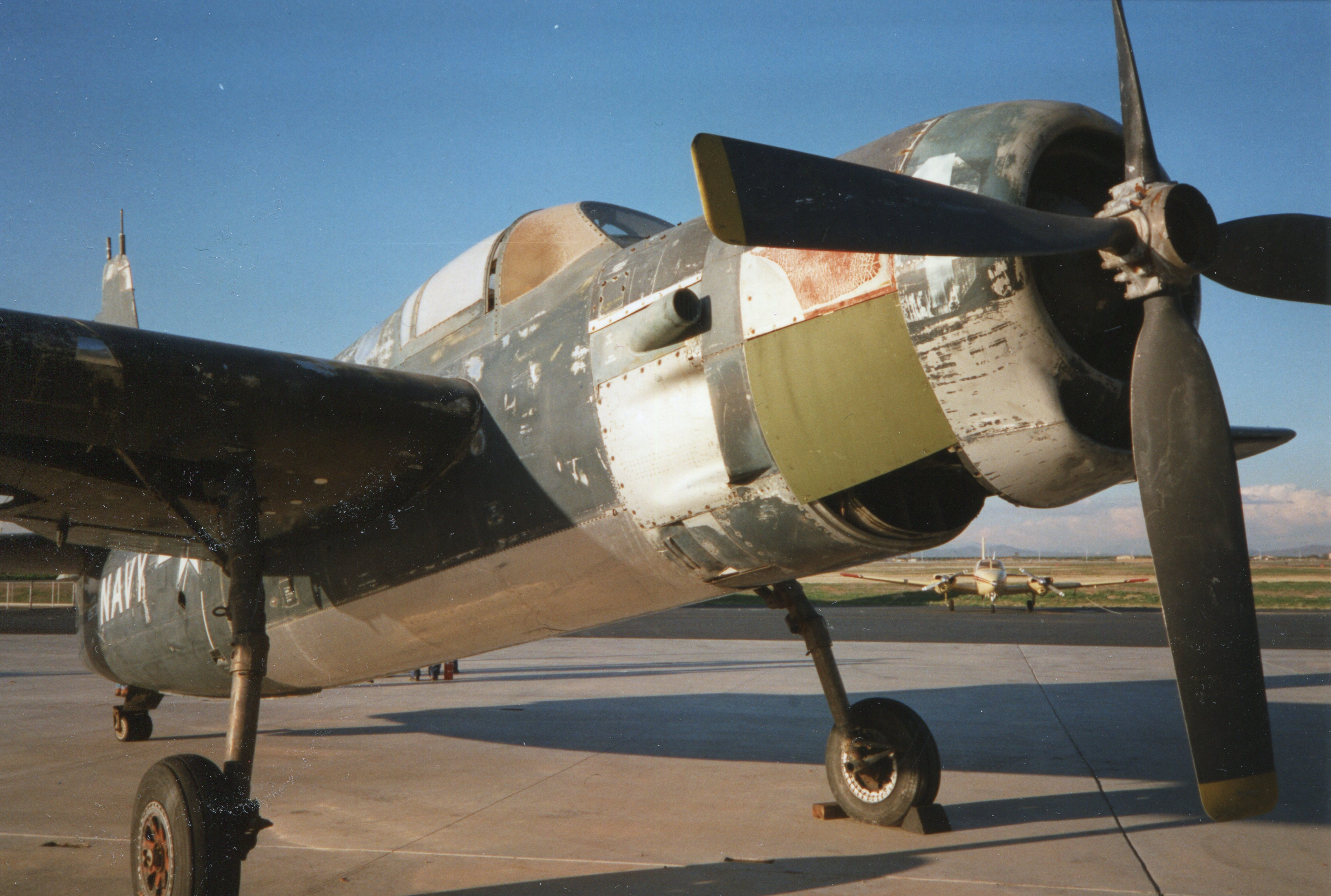 Grumman AF Guardian stored at Pima Museum